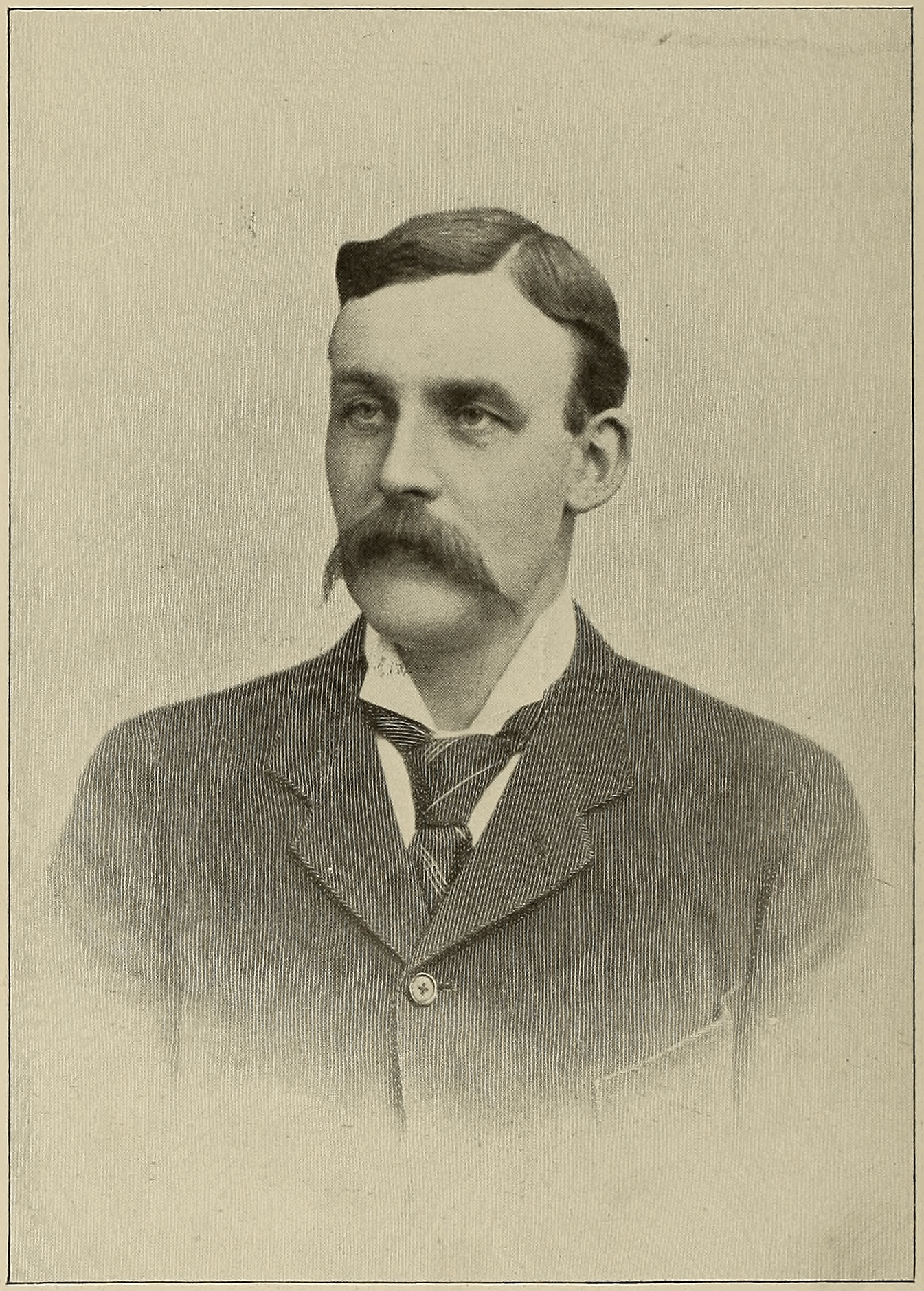 Cassier's Magazine of August 1897 was a special "Marine Number". The opening pages featured photographs of the writers involved, including this of Archibald Denny, who was the author of an article on page 393-406, titled The Design and Building of a Steamship.